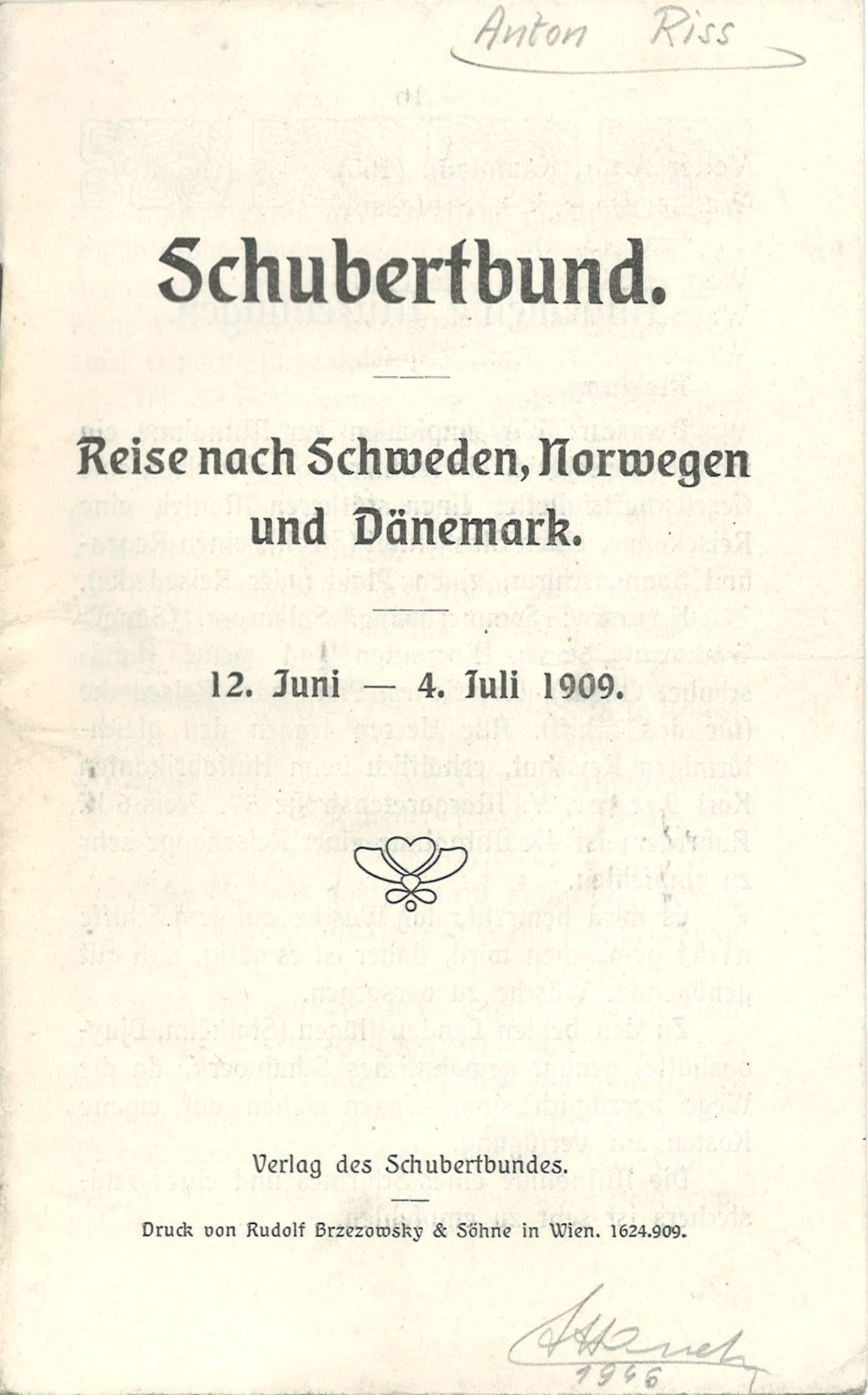 Plan of the trip of the Schubertbund with SS Thalia in 1909, front cover